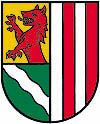 Coat of arms of Andorf, Upper Austria